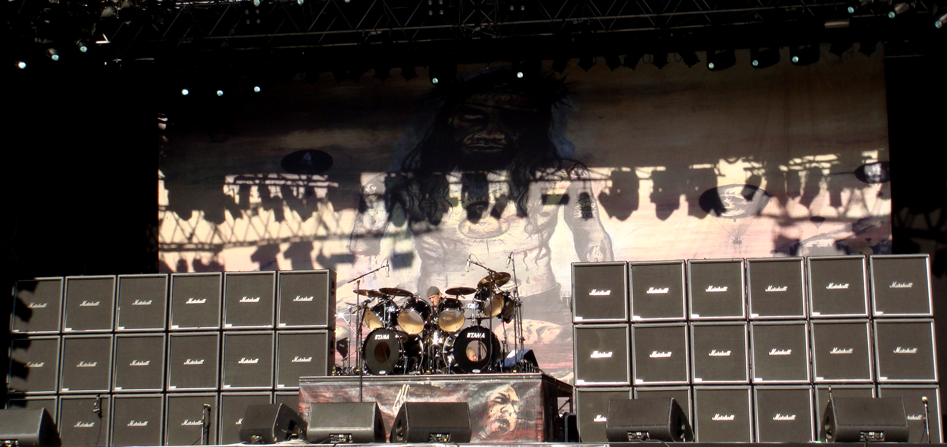 Stage setup of thrash metal band Slayer in Tuska 2008 open air metal festival in Helsinki, Finland